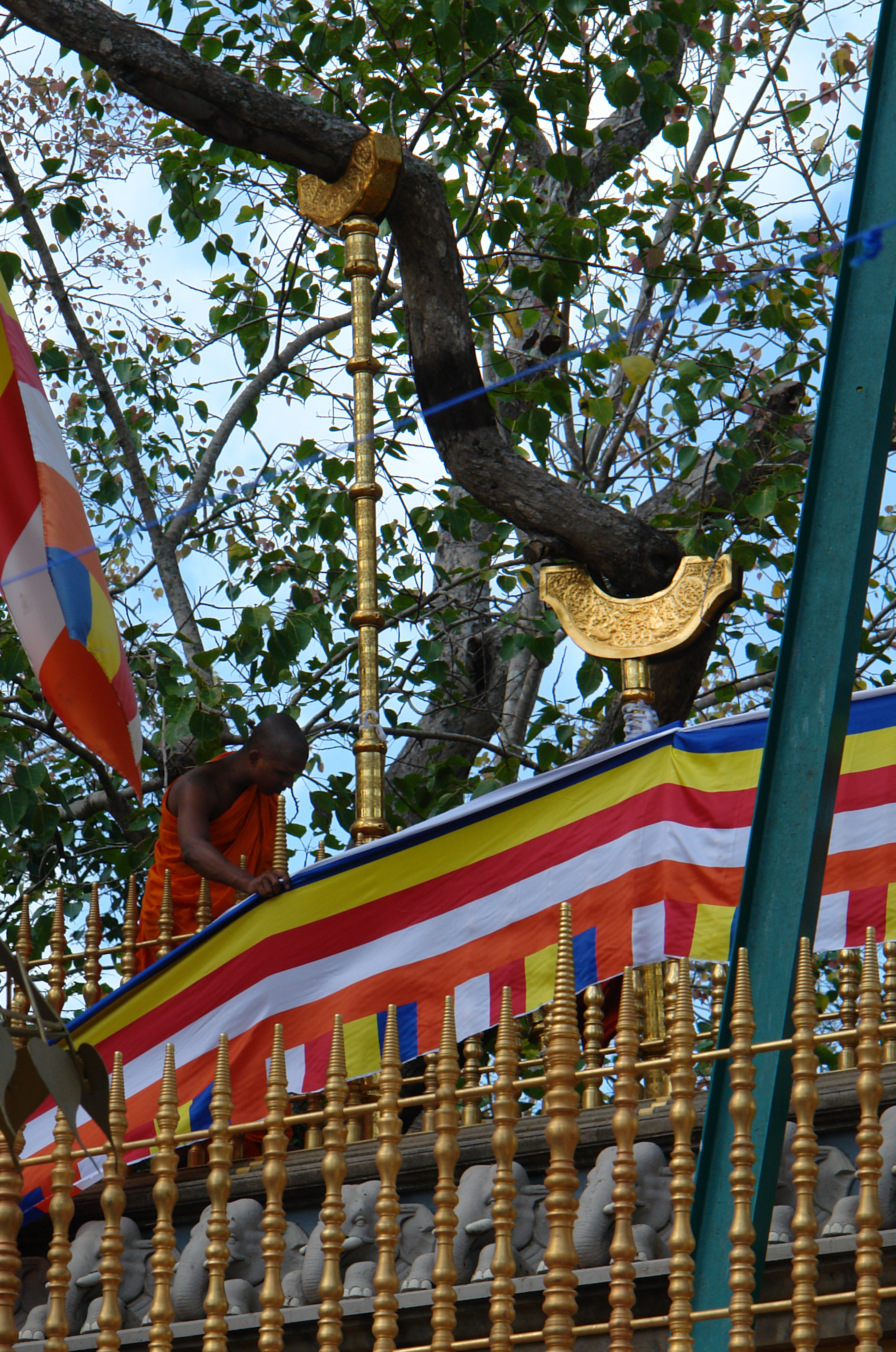 Photograph of Jaya Sri Maha Bodhi,Sacred Fig tree in Anuradhapura, Sri Lanka.